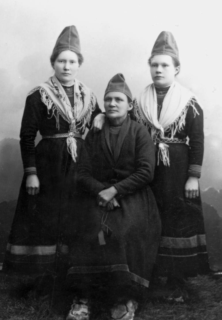 Sami politician Elsa Laula Renberg (1877-1931) back left with mother Kristina Laula (1847–1912) and sister Maria (1882-1950)